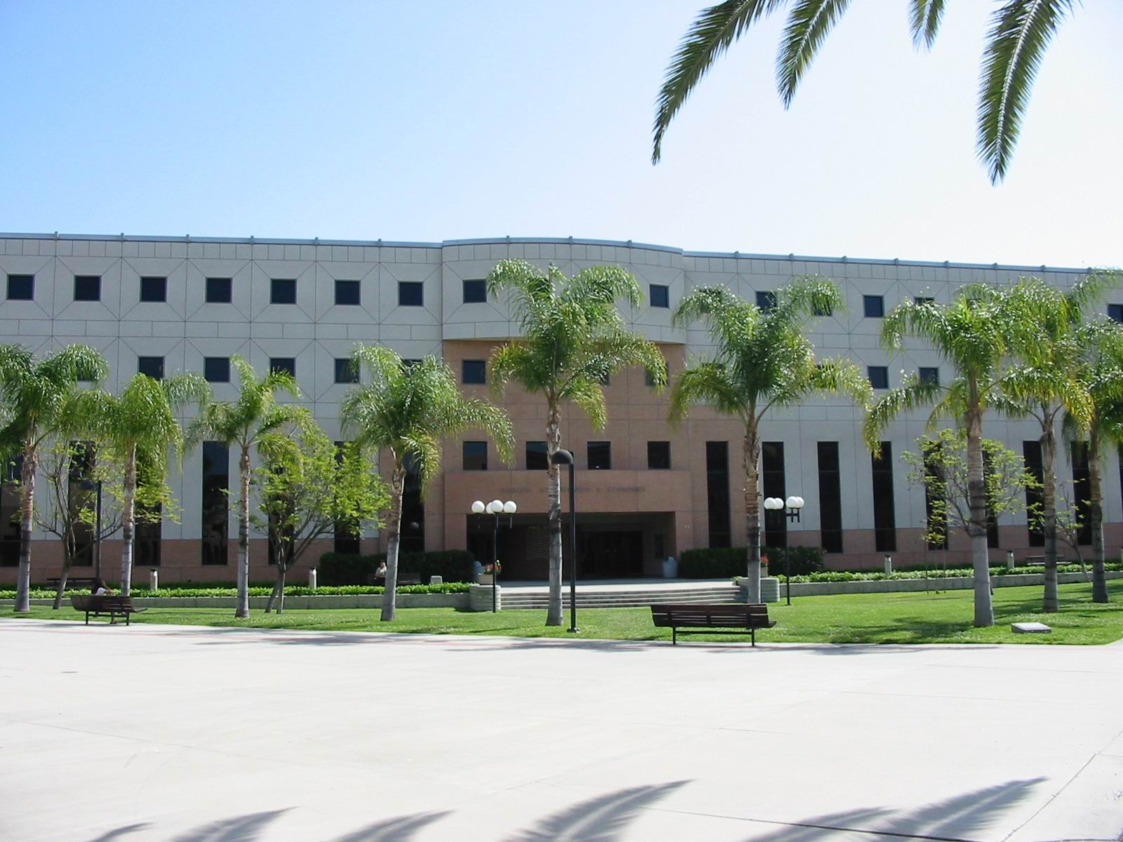 California State University, Northridge, California, USA